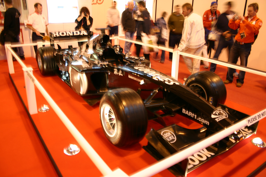 Autosport International auto show, January 10, 2004, N.E.C., Birmingham, UK.